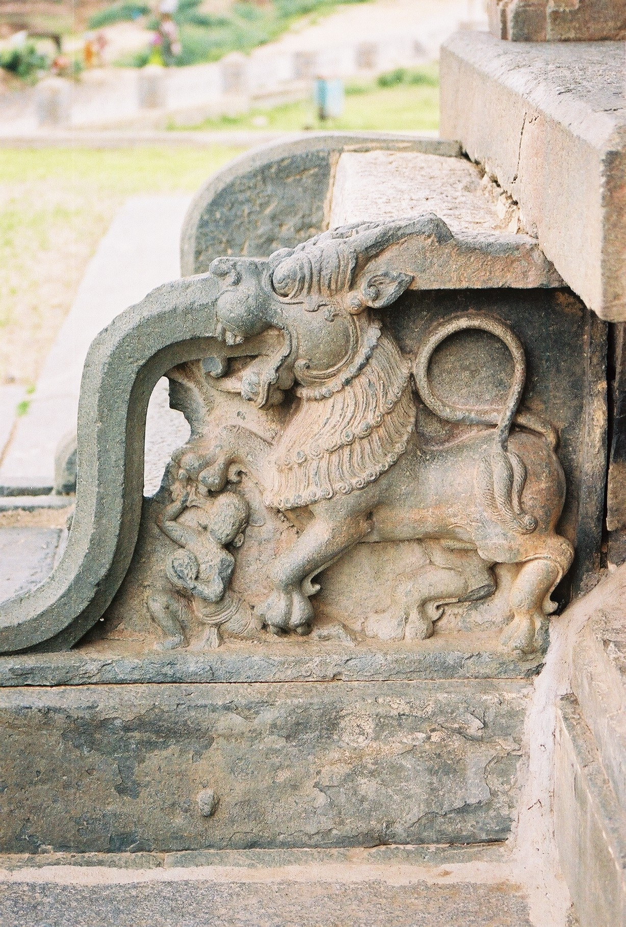 This photograph was taken by me in the Naneshvara (also spelt Nanesvara or Naneshwara) temple at Lakkundi in the Gadag district of Karnataka state, India. The temple is a 11th century Western Chalukya empire construction.